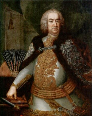 Count József Esterházy de Galántha